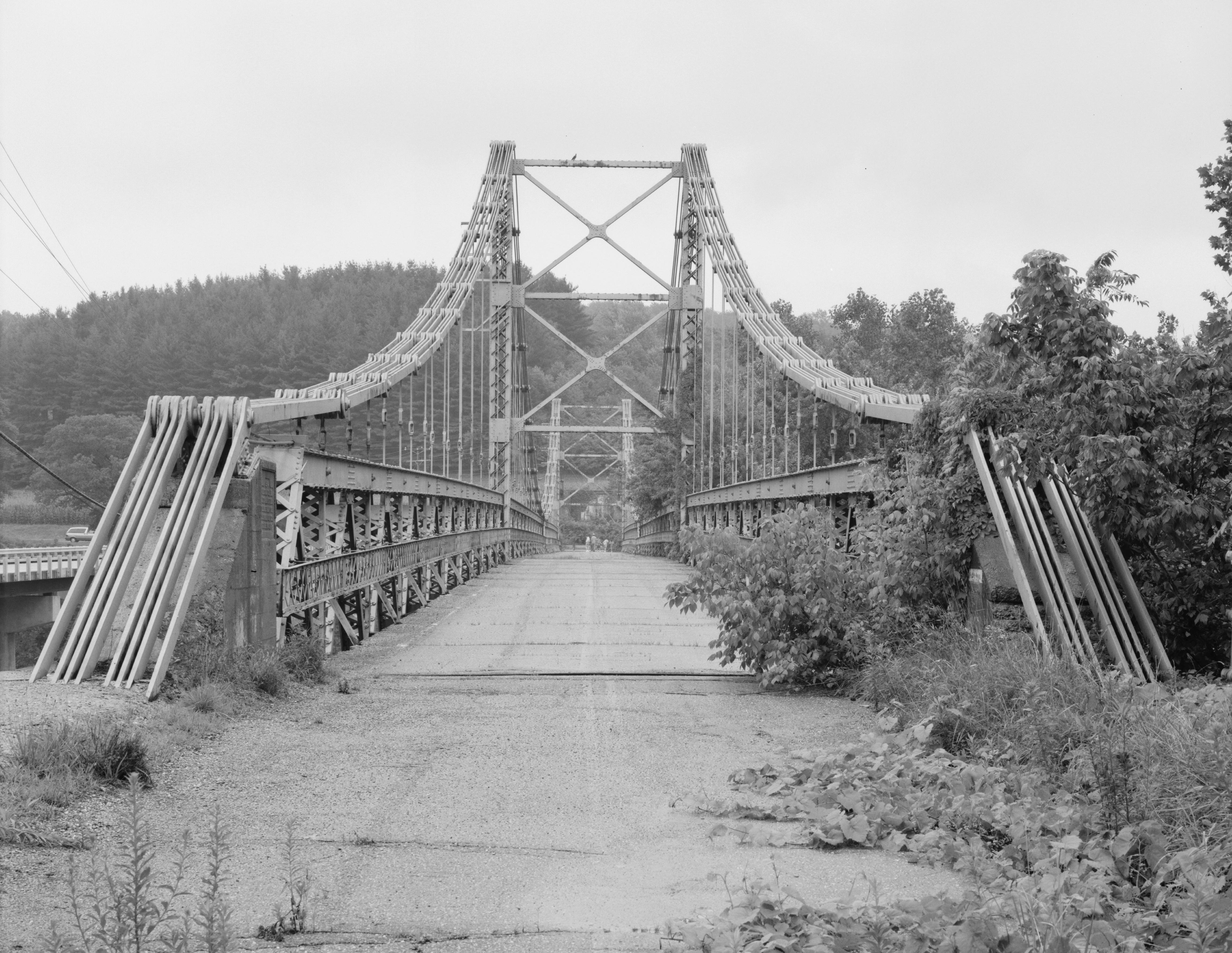 View from the western end of the Dresden Suspension Bridge, which spans the Muskingum River near the intersection of State Routes 208 and 666 at Dresden, Ohio, United States. Built in 1914, the bridge is listed on the National Register of Historic Places.